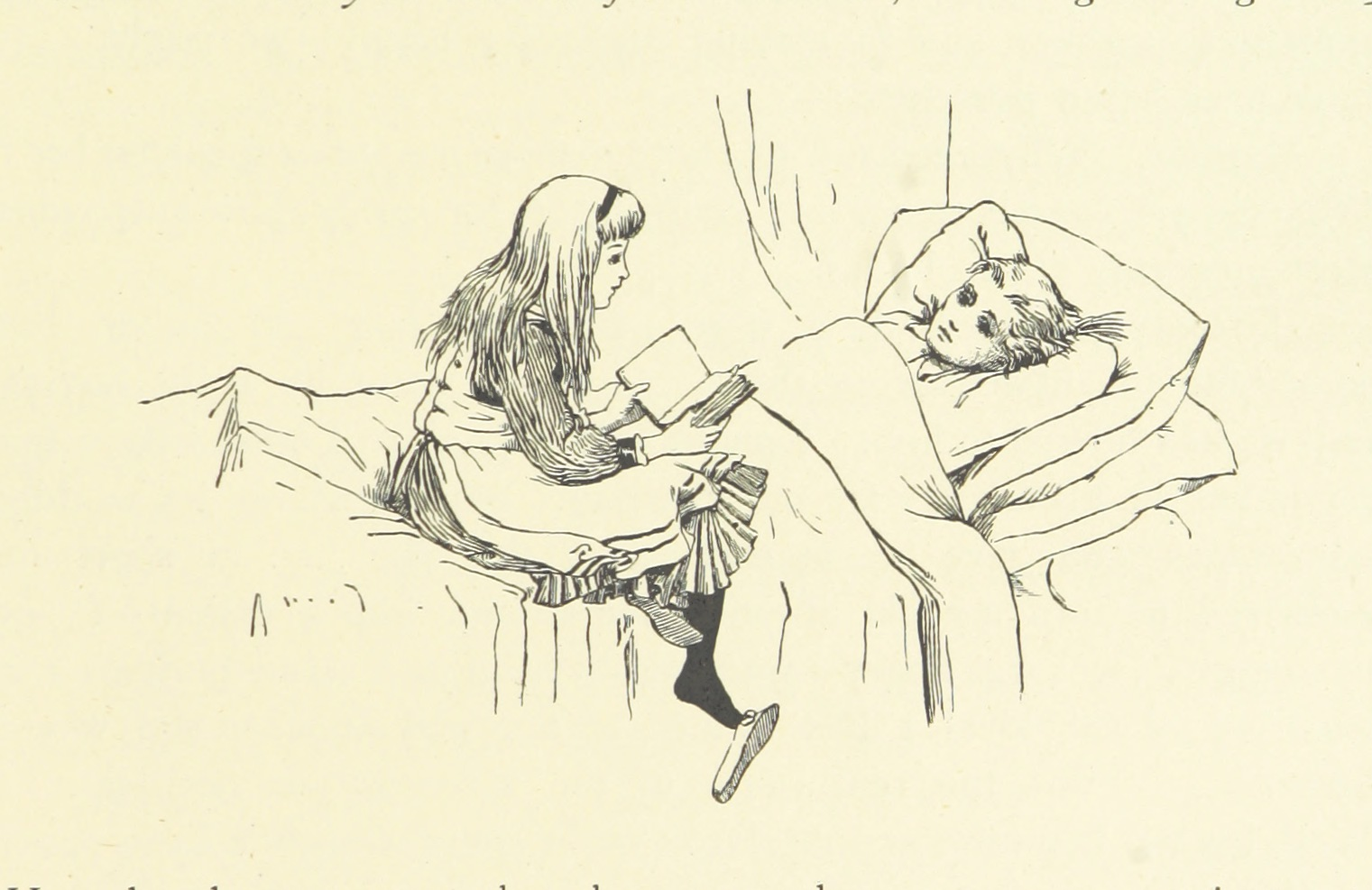 Image taken from: Title: "Drawing-Room Plays. Selected and adapted from the French by Lady Adelaide Cadogan. Illustrated by E. L. Shute, etc" Author: CADOGAN, Adelaide - Lady Contributor: SHUTE, E. L. Shelfmark: "British Library HMNTS 11781.h.9." Page: 41 Place of Publishing: London Date of Publishing: 1888 Publisher: Sampson Low & Co. Issuance: monographic Identifier: 000564359 Explore: Find this item in the British Library catalogue, 'Explore'. Download the PDF for this book (volume: 0) Image found on book scan 41 (NB not necessarily a page number) Download the OCR-derived text for this volume: (plain text) or (json) Click here to see all the illustrations in this book and click here to browse other illustrations published in books in the same year. Order a higher quality version from here.